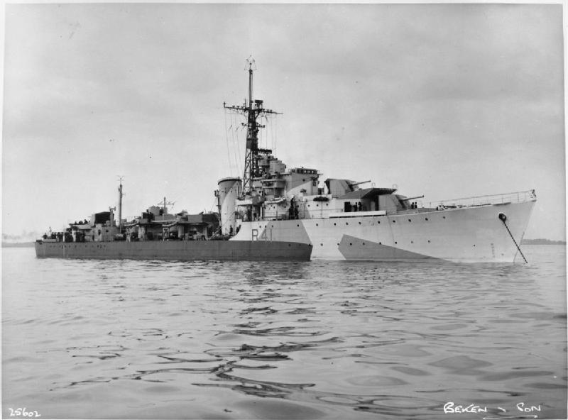 Photograph of British destroyer HMS Volage.